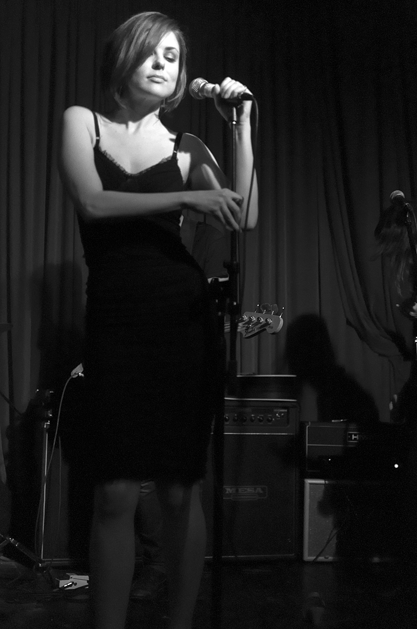 Anna Nalick performs at Hotel Cafe, Hollywood, California, USA on 20 June 2011.